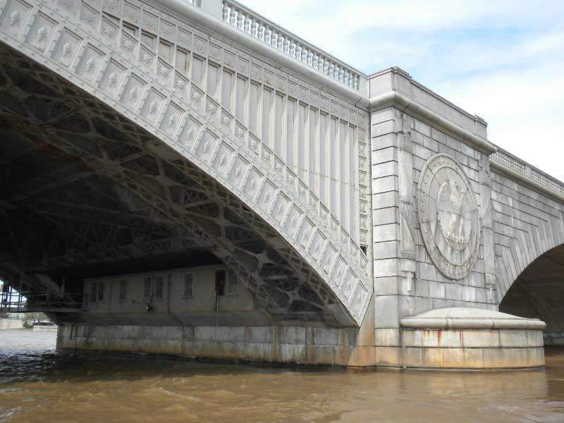 View of the bascule span of the Arlington Memorial Bridge over the Potomac River in Washington, D.C., in the United States. The bridge was constructed from 1925 to 1932. This photo was taken in 2013.